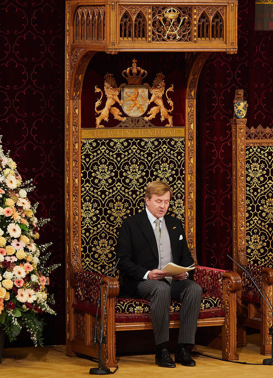 DEN HAAG, 19 SEPTEMBER 2017. Prinsjesdag FOTO MARTIJN BEEKMAN / MINISTERIE VAN FINANCIEN